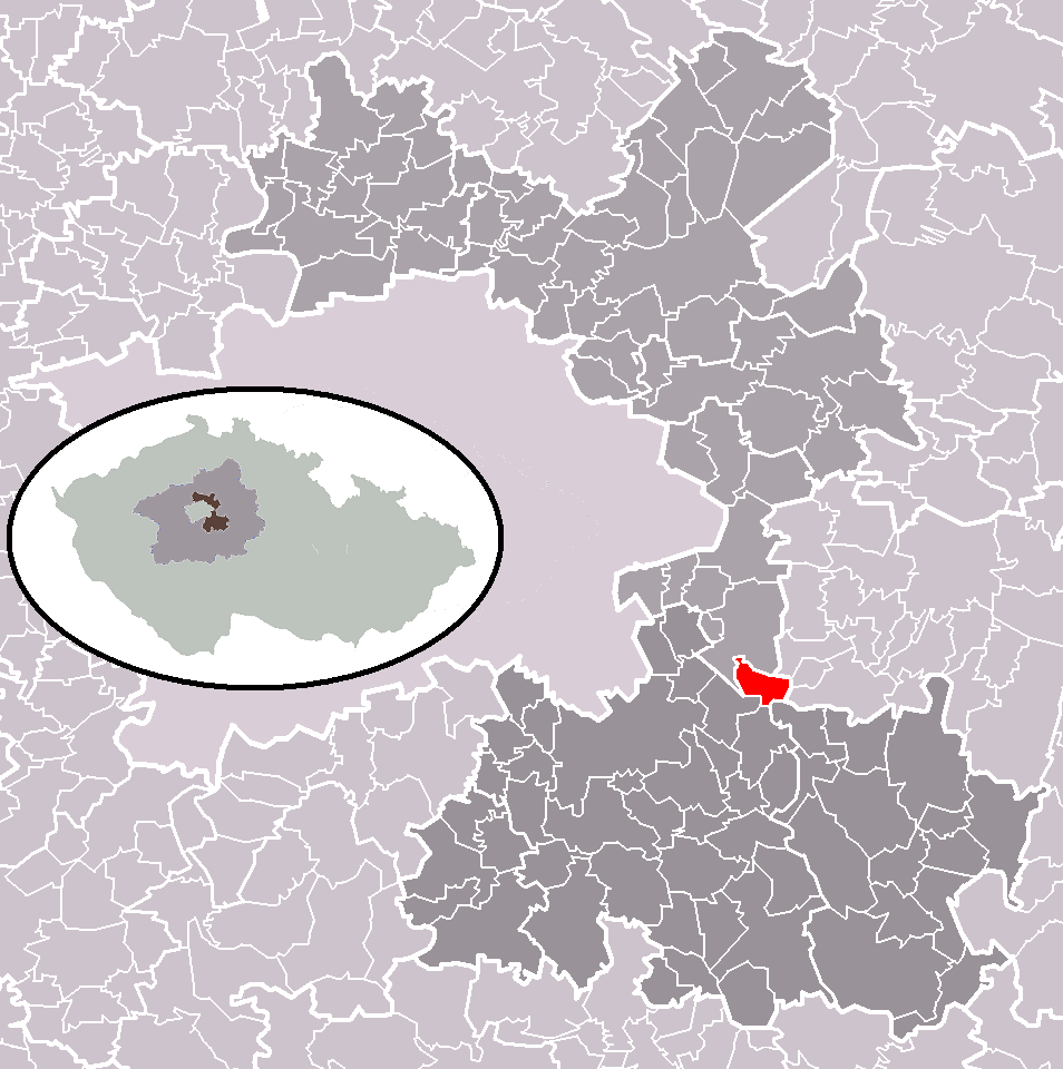 Location of Doubek municipality within Prague-East District and administrative area of Říčany as a Municipality with Extended Competence.